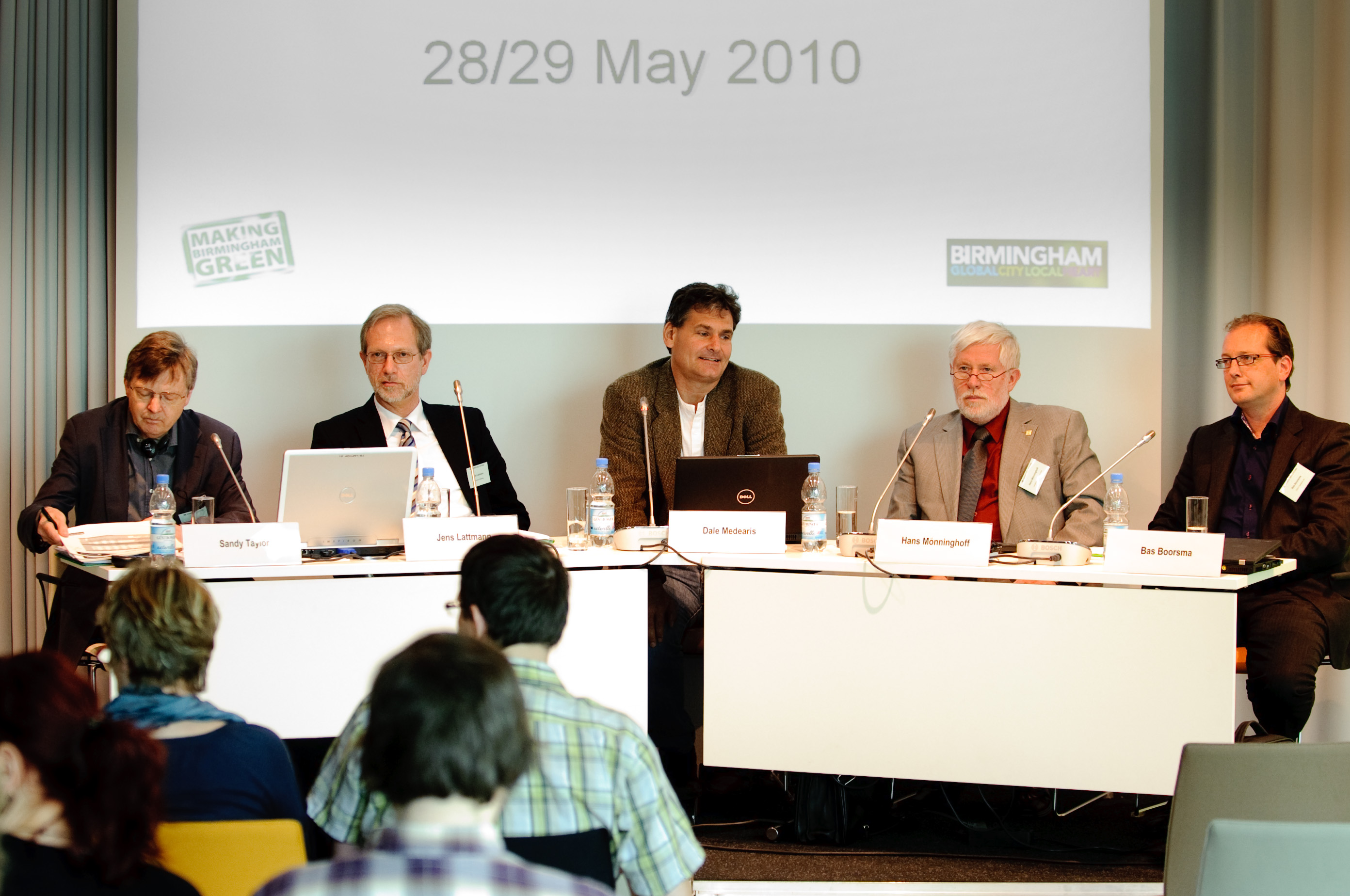 Foto: Stephan Röhl